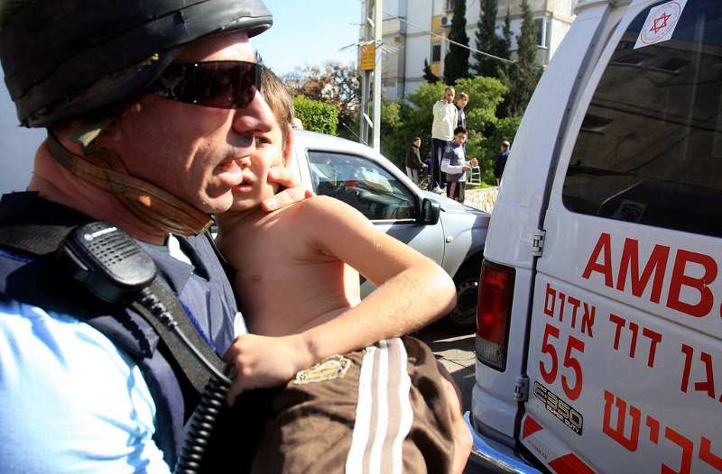 Israeli child injured from Hamas Grad rocket fired at Beer Sheva civilian area from Gaza is taken to hospital